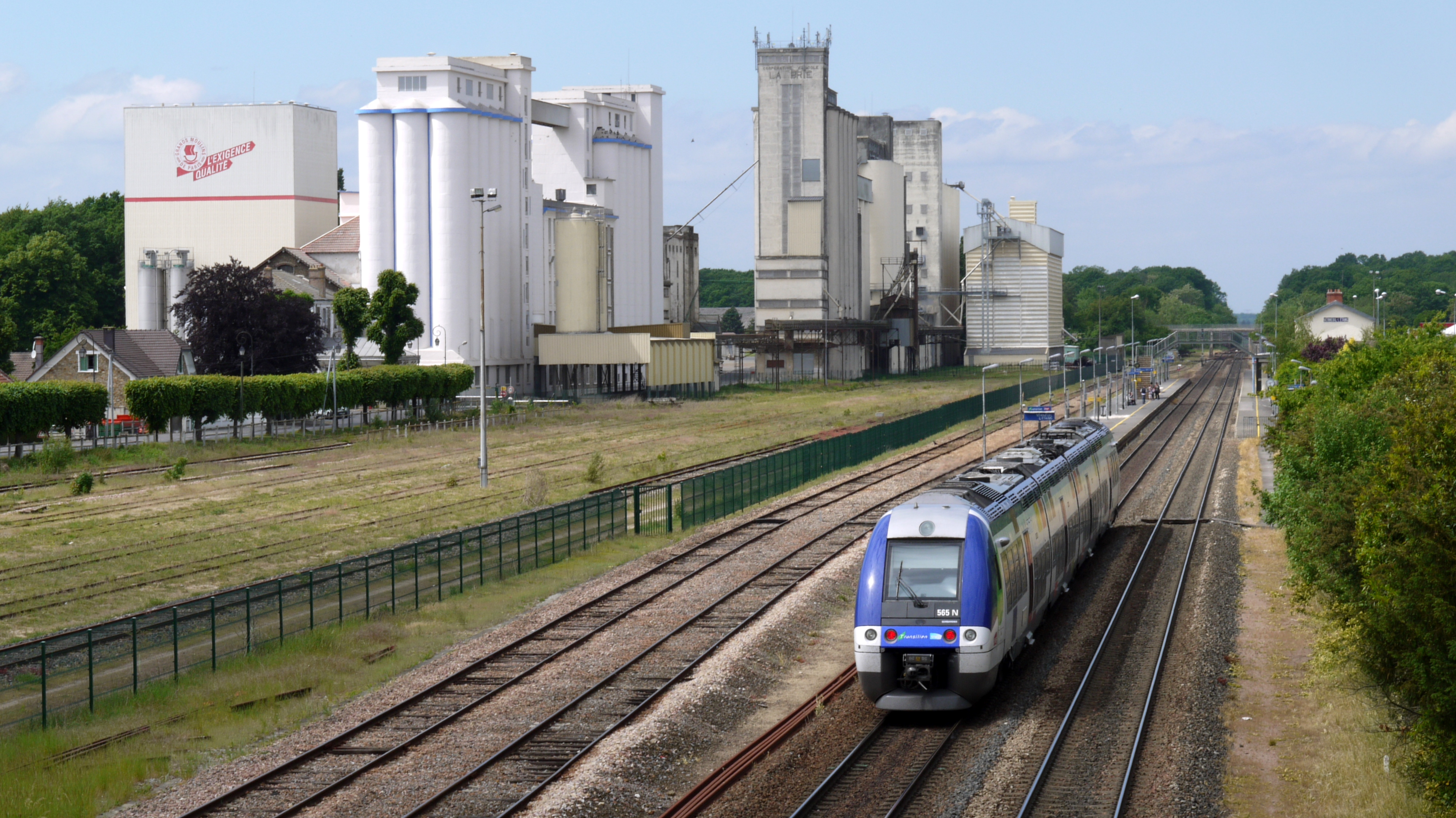 Arrival from f a Hybrid-powered (electric and diesel) multiple units of SNCF Class B 82500 unit in Verneuil-l'Étang station, Seine et Marne, France, Flour mills behind